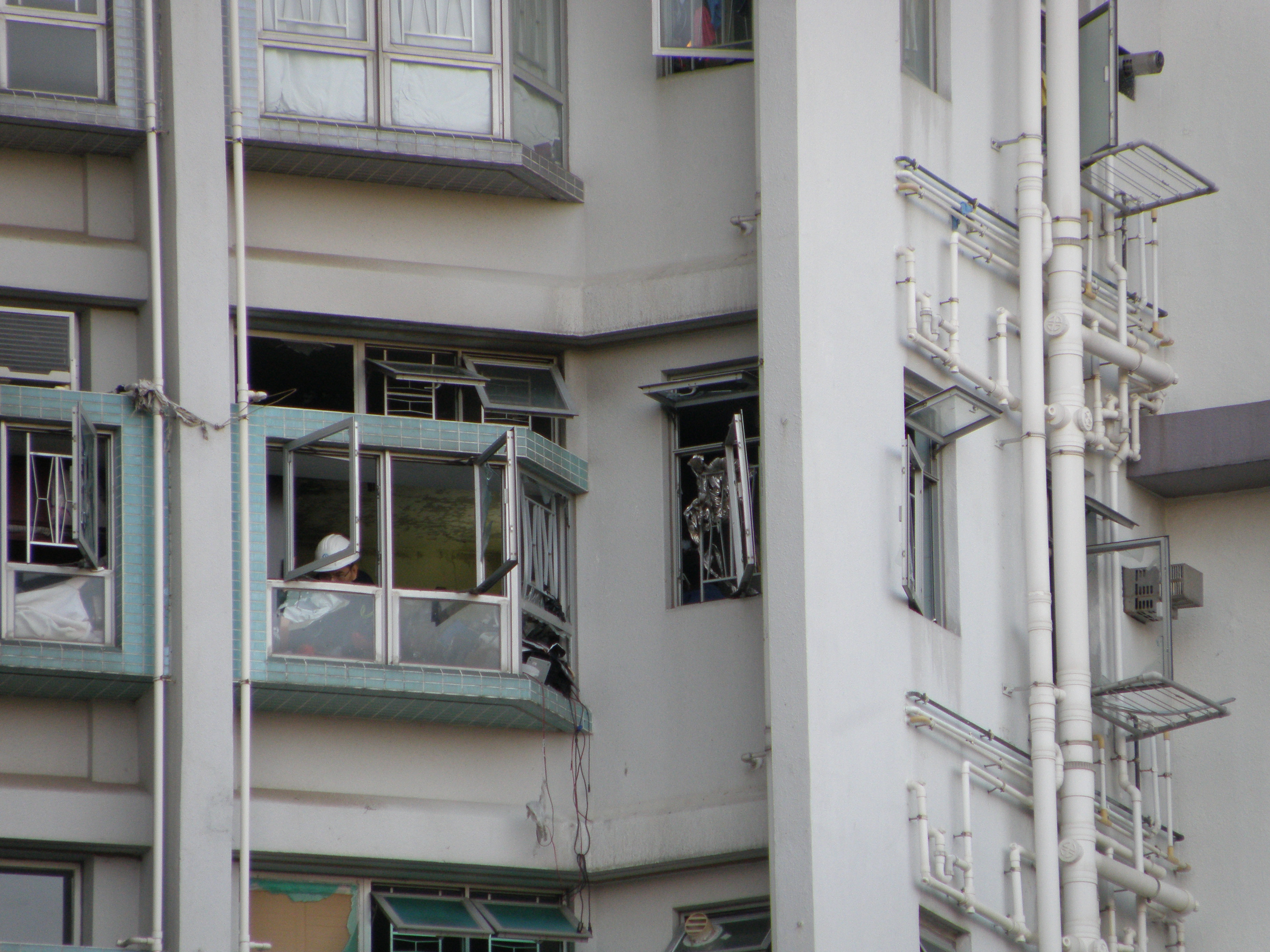 Shek Kip Mei Estate exploded unit in November 2014, Hong Kong.